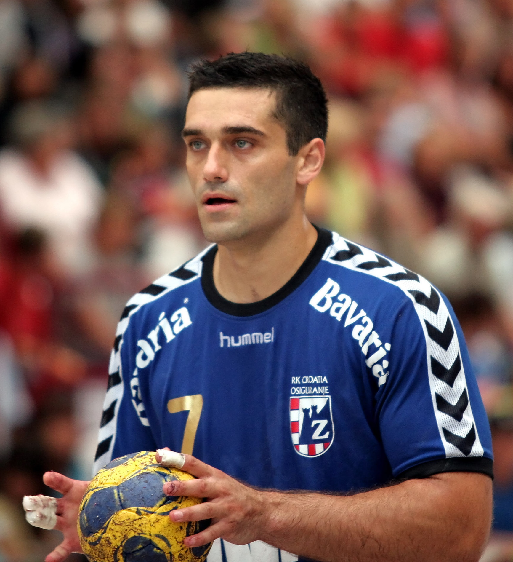 Kiril Lazarov, Macedonian handball player, playing for RK Zagreb, on August 22nd, 2009 in Ehingen (Germany), during the Schlecker Cup 2009.